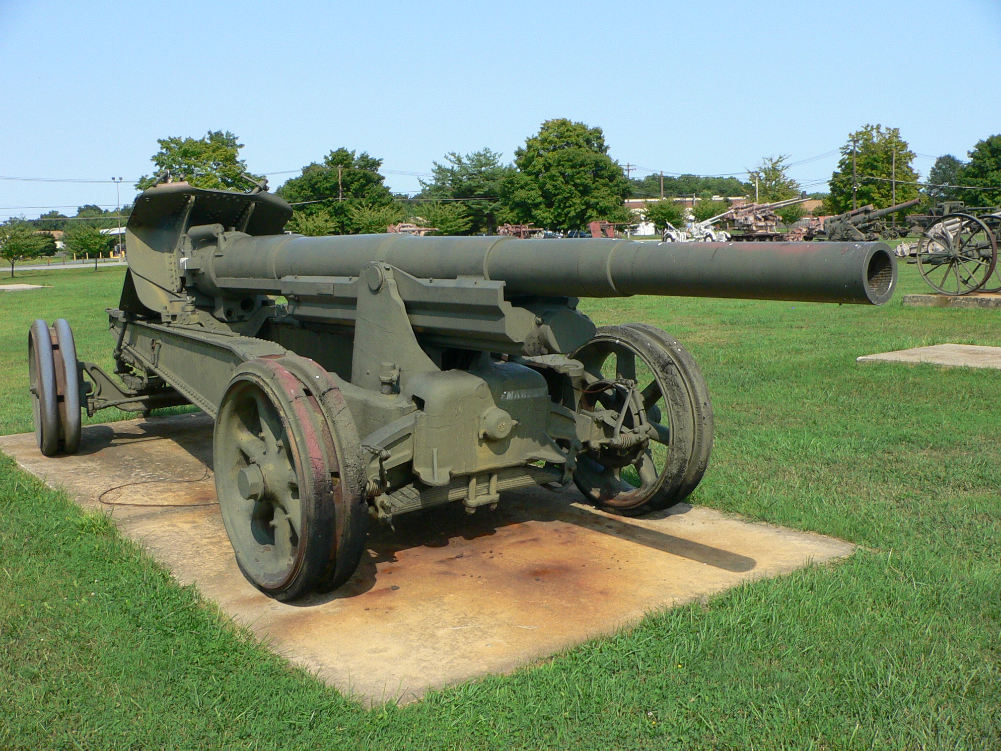 Picture taken by myself, Mark Pellegrini, at the United States Army Ordnance Museum (Aberdeen Proving Ground, MD) on August 14, 2007.